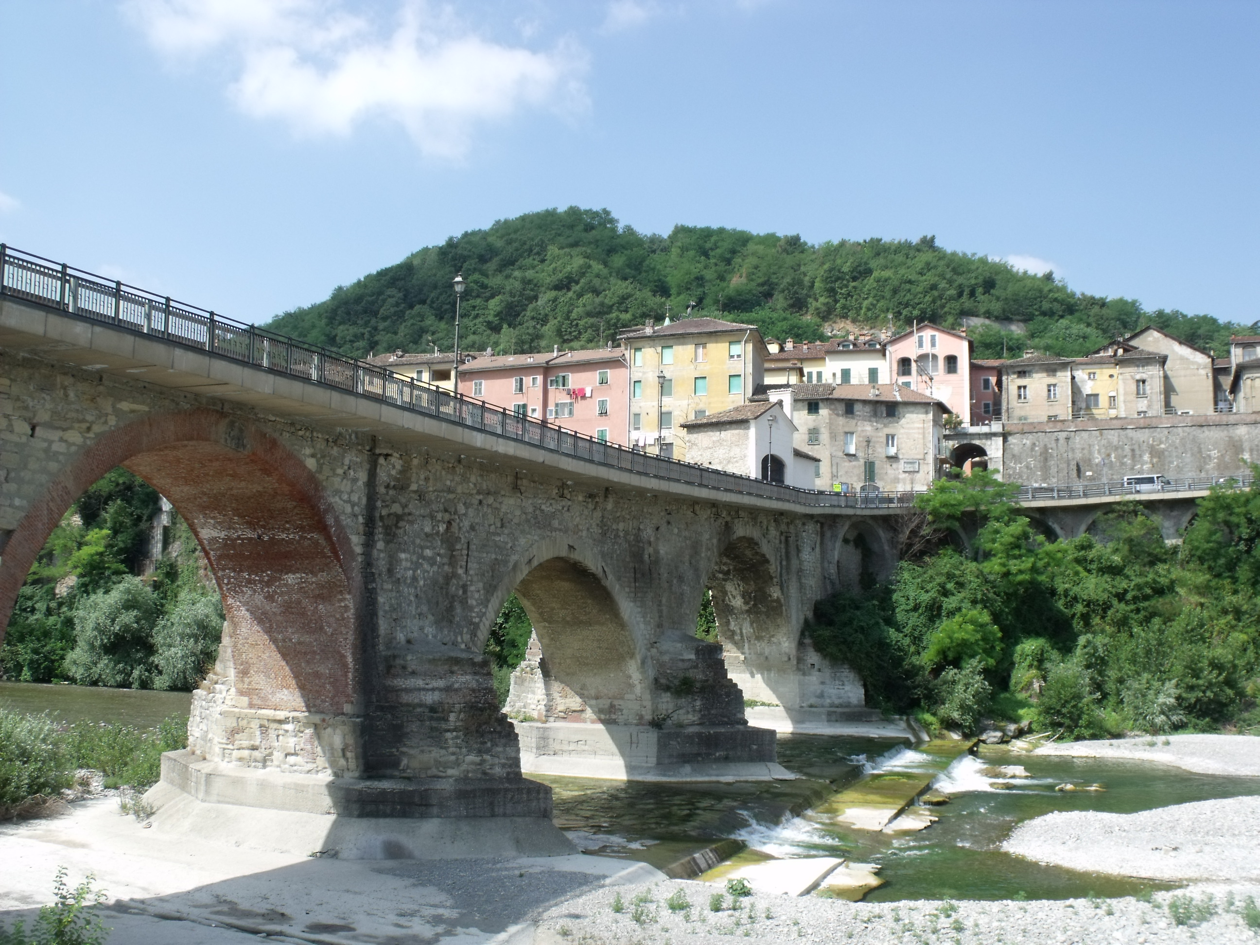 The bridge over the Scrivia River in Serravalle Scrivia, Province of Alessandria, Region Piedmont, Italy